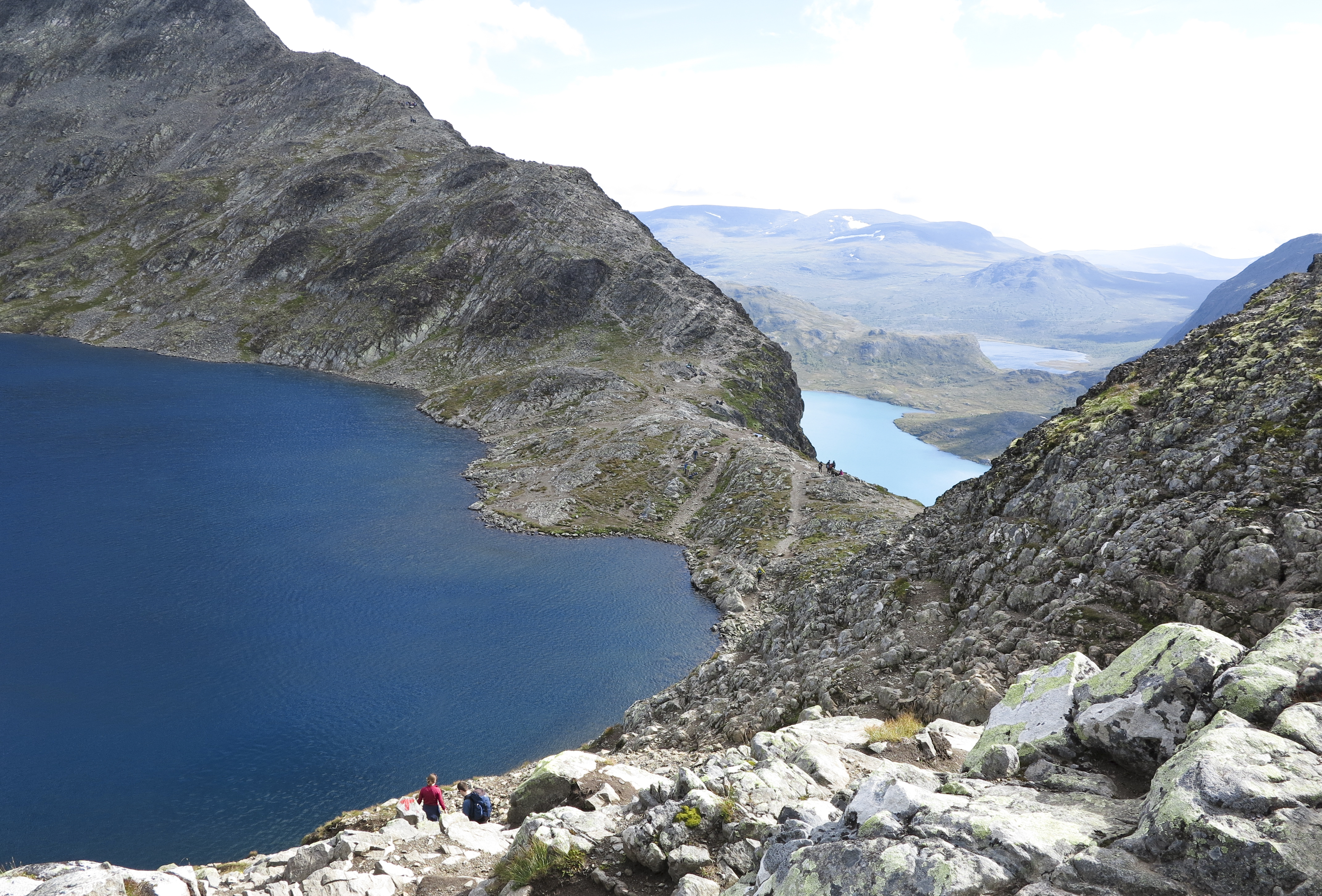 Lake Bessvatnet, Mountain Besseggen, Lake Gjende. Norway